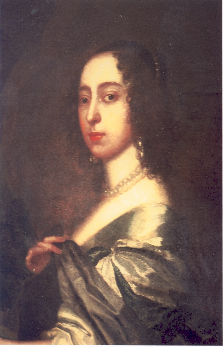 A detail of portrait of Rachael Fane, Countess Dowager of Bath, possibly by George Geldorp. Rodolph (talk) Rodolph 02:09, 22 January 2007 (UTC)